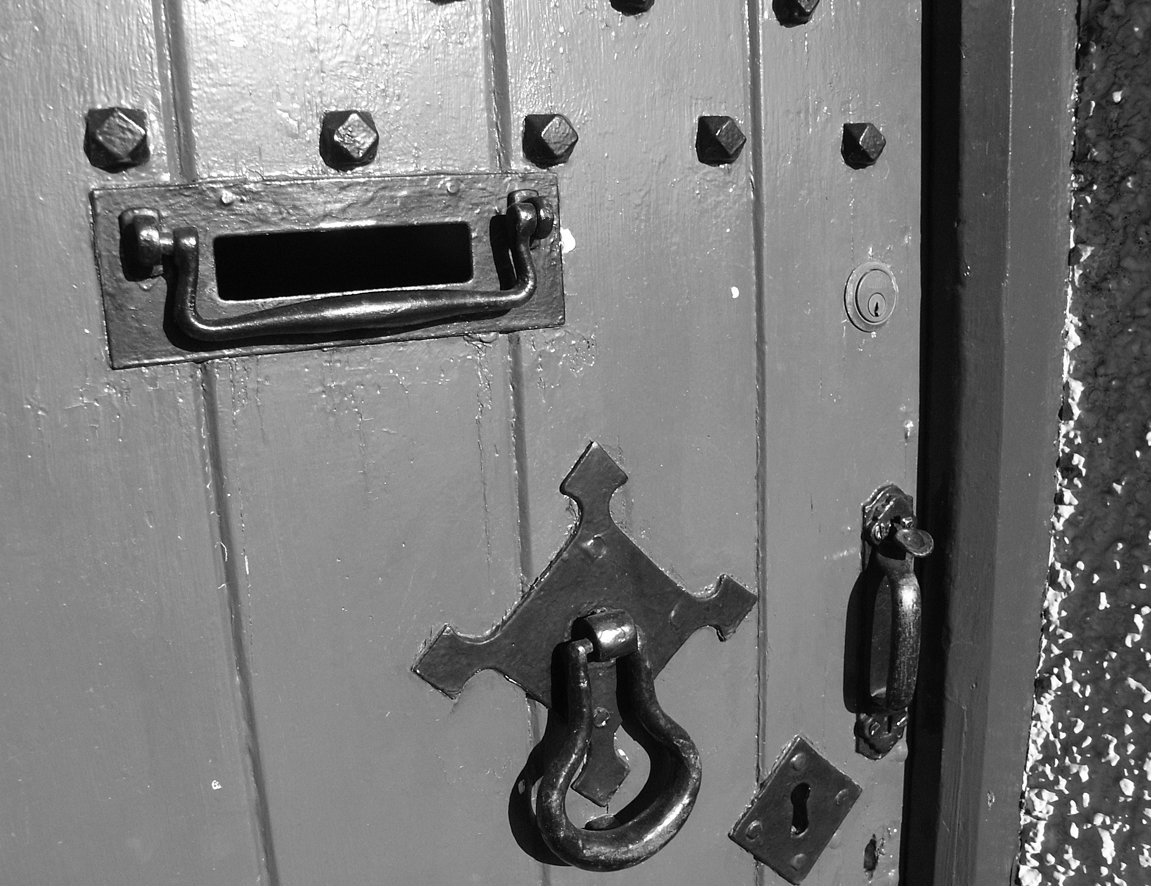 Front door of a house with typical door furniture: a letter box, door knocker, a latch and two locksDoor